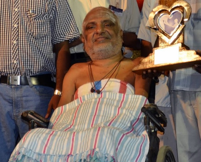 Ramakrishnan receiving the inaugural Dr. Mary Verghese Award for Excellence in Empowering Ability, during the Rehab Mela conducted by the Mary Verghese Trust and Department of PMR, CMC Vellore, on 18 February 2012 at Bagayam, Vellore, Tamil Nadu, India.